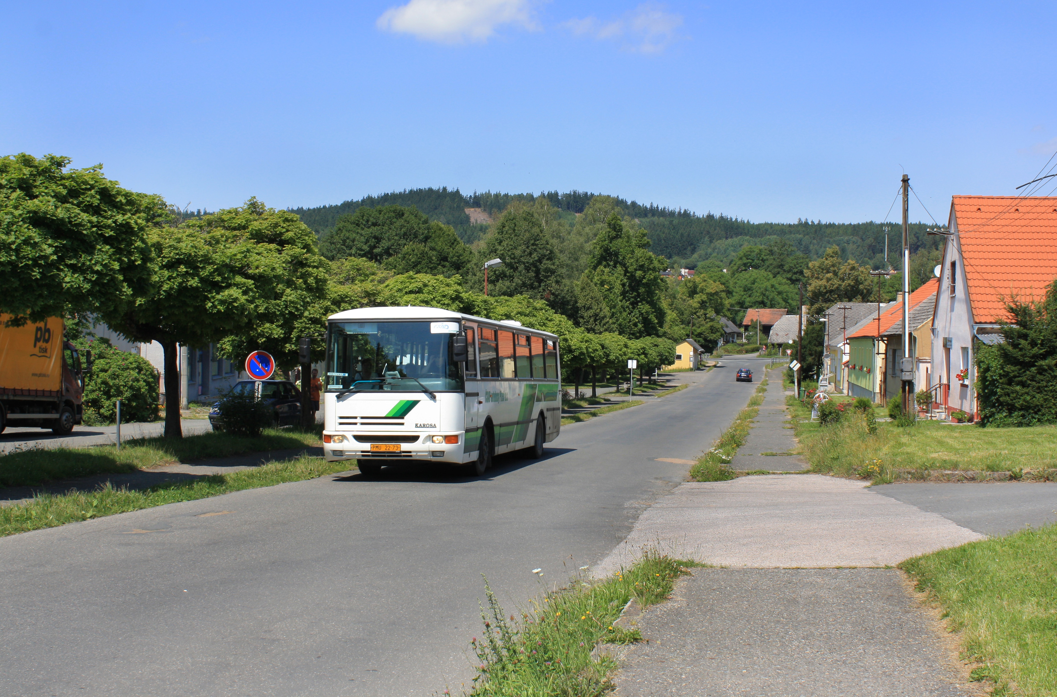 Common in Strašice, Czech Republic